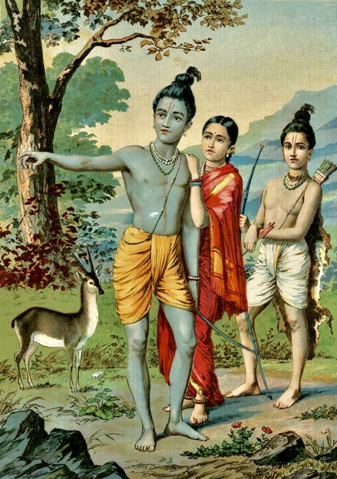 The lord Rama portrayed as exile in the forest, accompanied by his wife Sita and brother Lakshmana